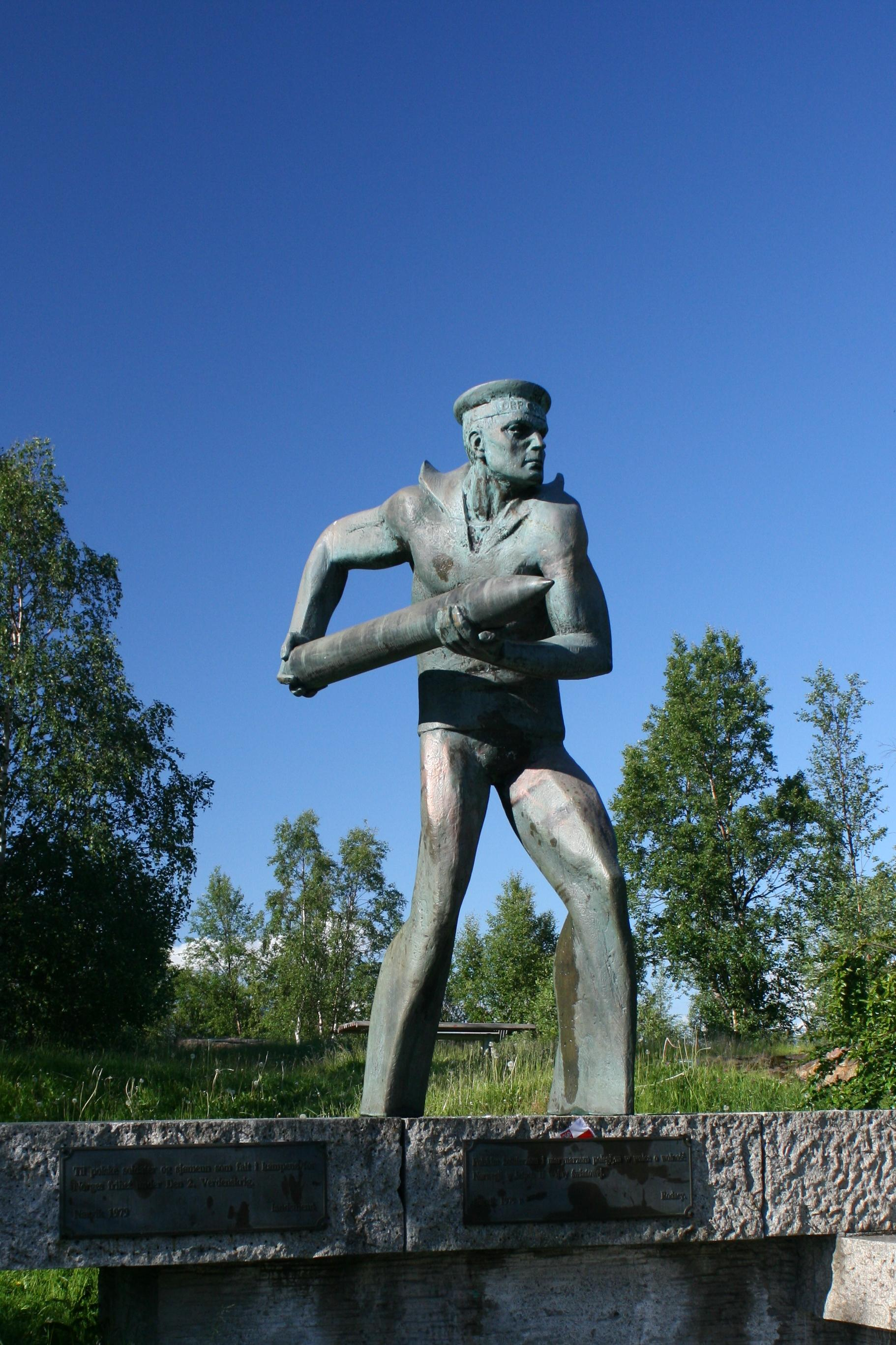 Monument of Polish sailors from "ORP Grom" warship who died in battle of Narvik, Groma Plass Narvik, designed by prof. Bohdan Chmielewski